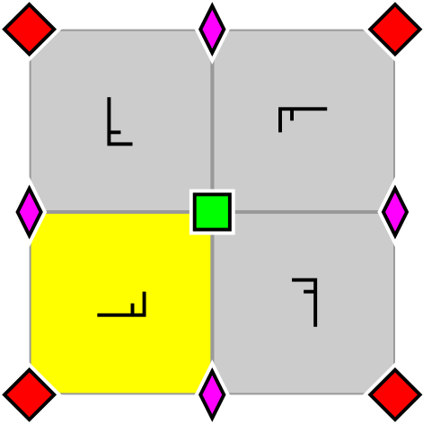 Cell structure diagram of the wallpaper group p4